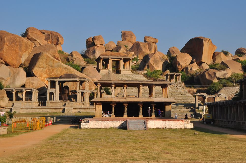 The Stone Pavilion at the Hampi Bazaar at the opposite end from the Virupaksha Temple. Also includes the Monolithic Bull or Nandi Statue.